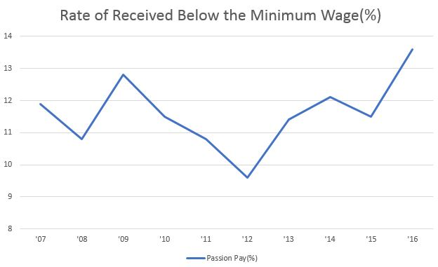 Social Trends in Korea 2017 (income, consumption, labor, housing, transportation, environment, safety, social integration)